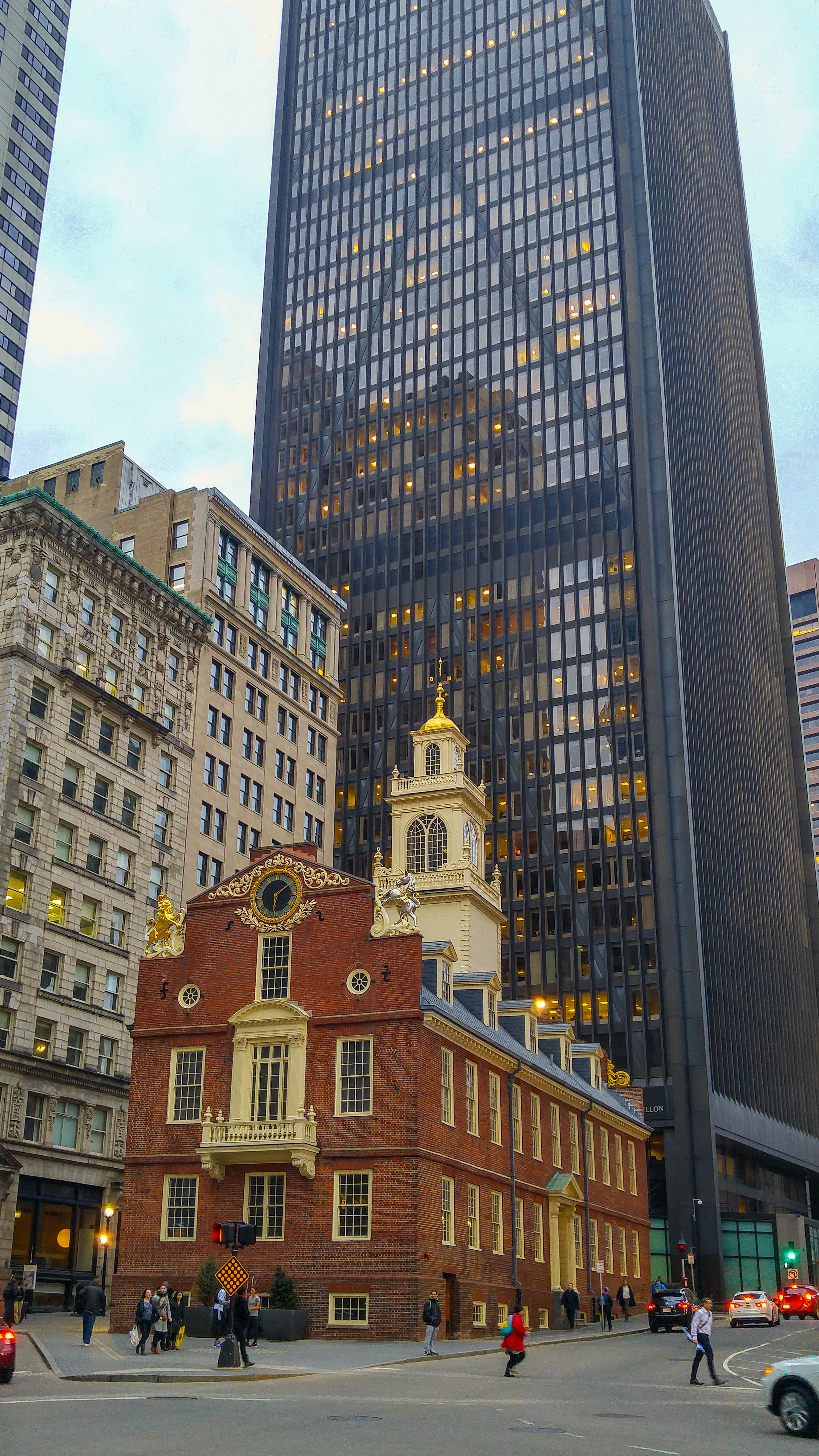 The Old State House is dwarfed by the more modern highrises.